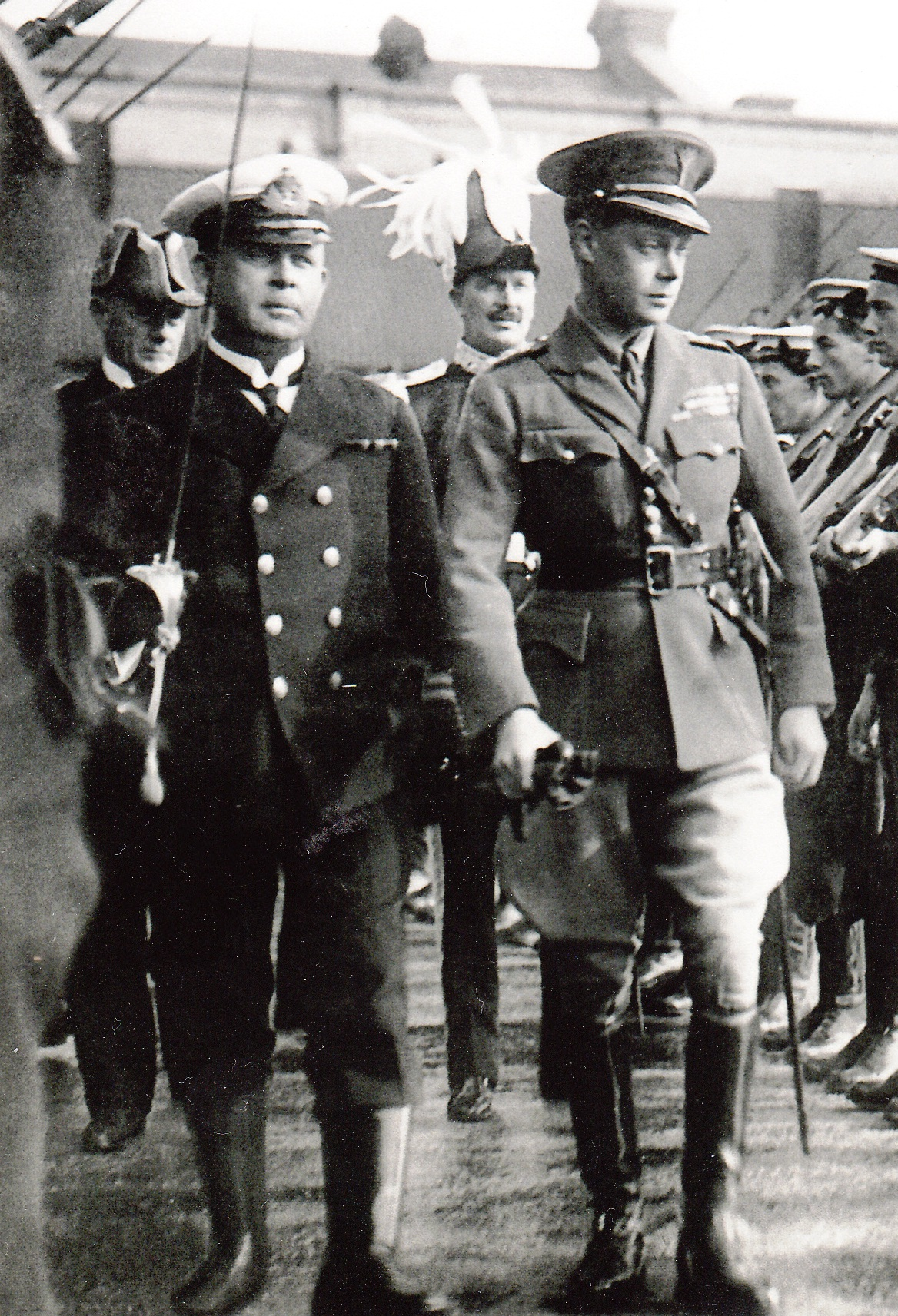 In July 1920 John Turner was Officer of the Guard for the arrival of His Royal Highness The Prince of Wales